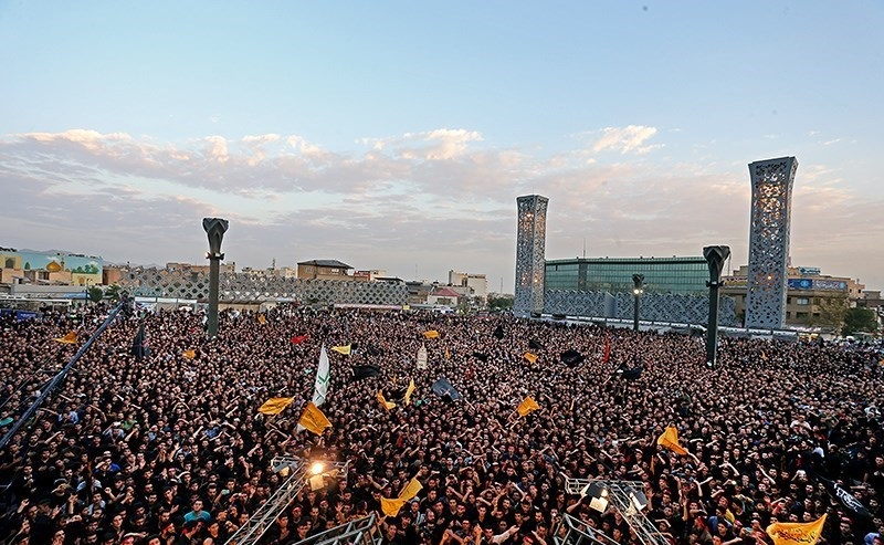 Protests in support of Iranian involvement in the Syrian Civil War in Imam Hossein square, Tehran, Iran